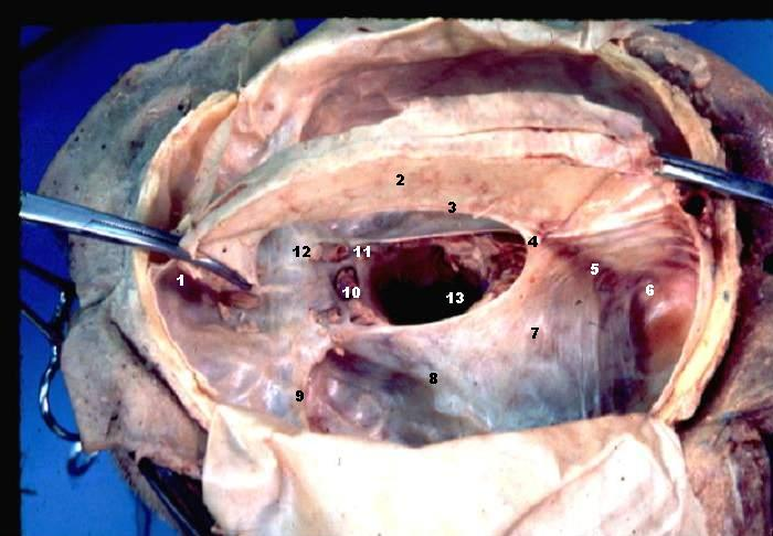 Dura mater (reflections) The dura mater has several reflections within the cranial vault which separate parts of the brain. The falx cerebri separates the right from the left cerebral hemisphere, the tentorium cerebelli separates the occipital lobe of the cerebrum from the underlying cerebellum, and the diaphragma sellae forms a circular partition around the stalk of the pituitary gland. The medial edge of the tentorium cerebelli is called the tentorial incisure. Crista galli Falx cerebri Sinus sagittalis inferior Incisura tentorii - Tentorial incisure Sinus rectus Confluens sinuum Tentorium cerebelli Sinus petrosus superior Sinus sphenoparietalis Diaphragma sellae Arteria carotis interna Nervus opticus Foramen magnum